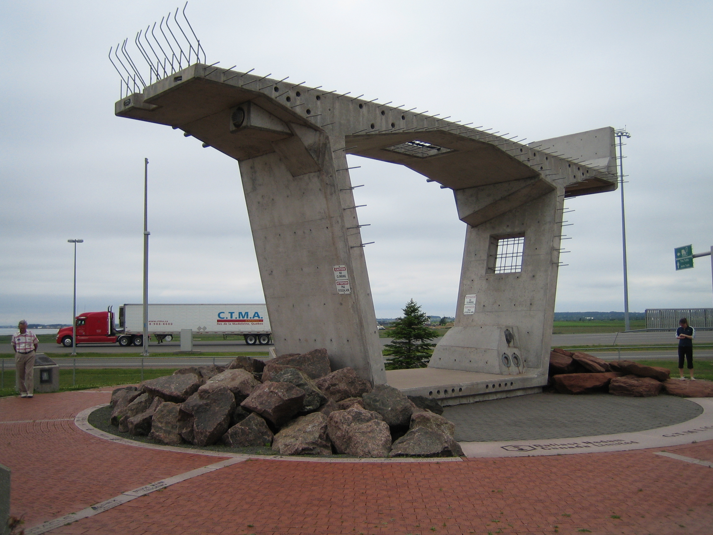 Piece of the Confedration Bridge